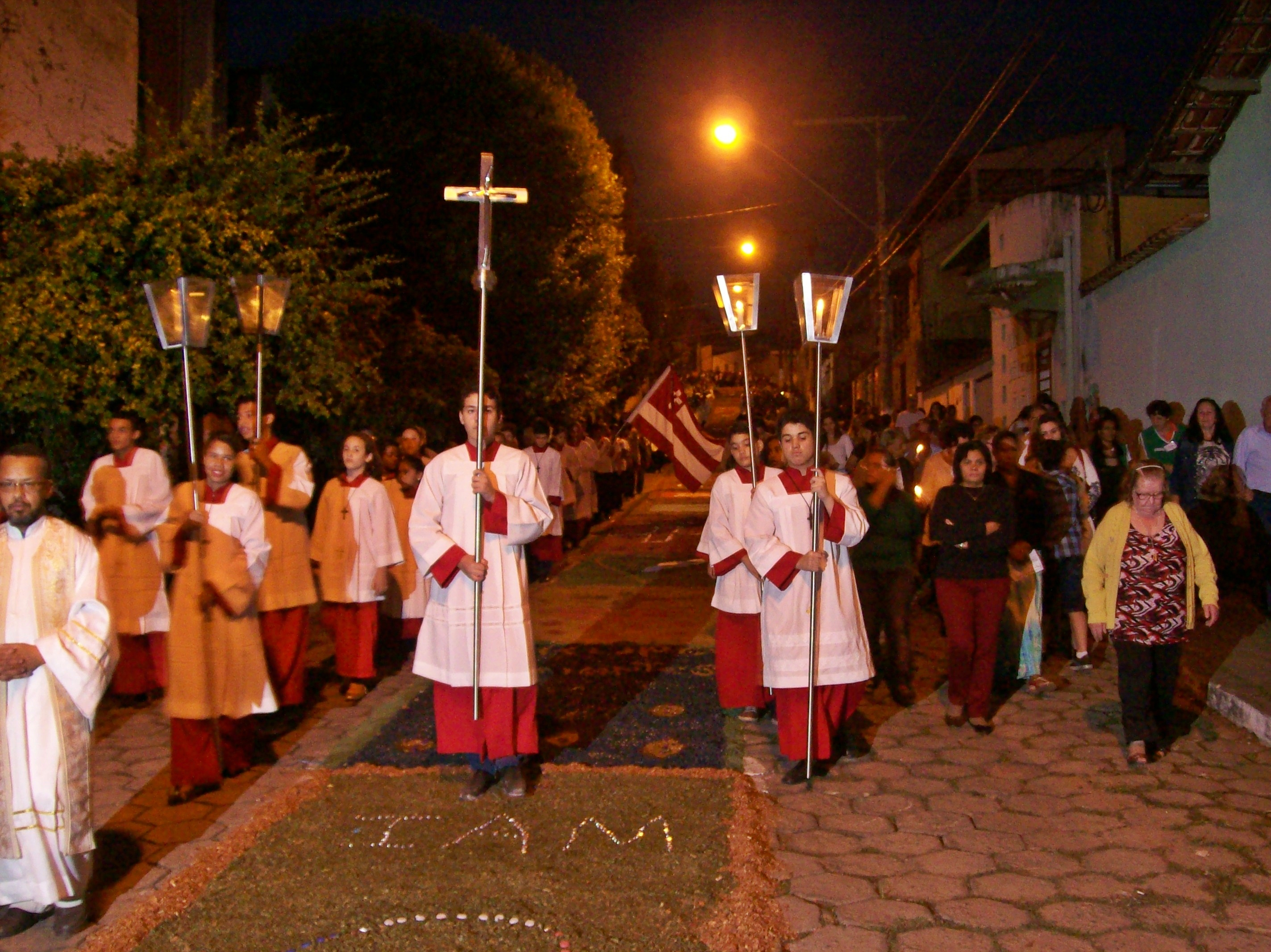 Corpus Christi procession of the Saint Sebastian Parish, in Coronel Fabriciano, Minas Gerais, Brazil.